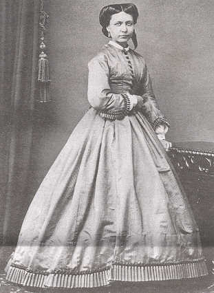 Finnish painter Alexandra Frosterus-Såltin (1837–1916)